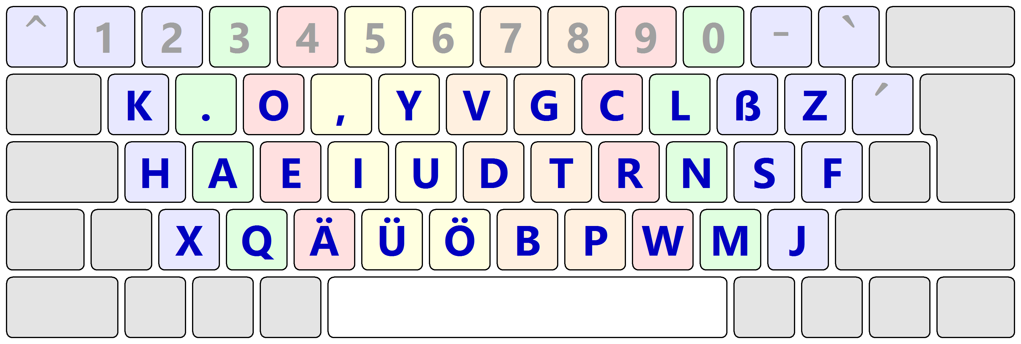 An alternative German keyboard layout, based on while changing the Latin letters and ",", "."..